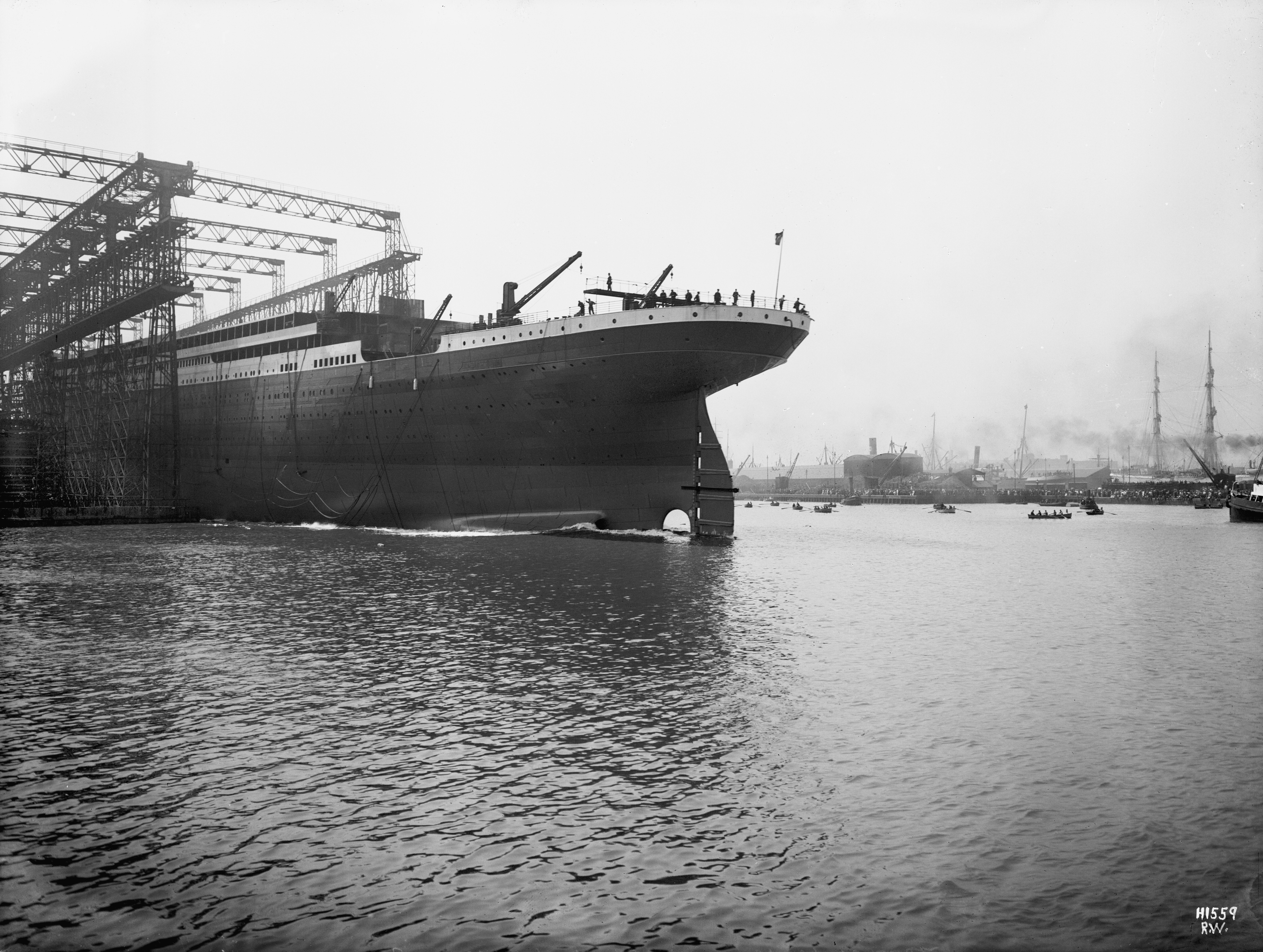 Launching of Titanic